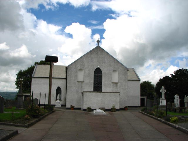 Saint Joseph's Church Tinryland Inside this Church is a beautiful stained glass window to the memory of Captain Myles Keogh, 7th cavalry, killed at the battle of Little Big Horn, USA, 25th June 1876.